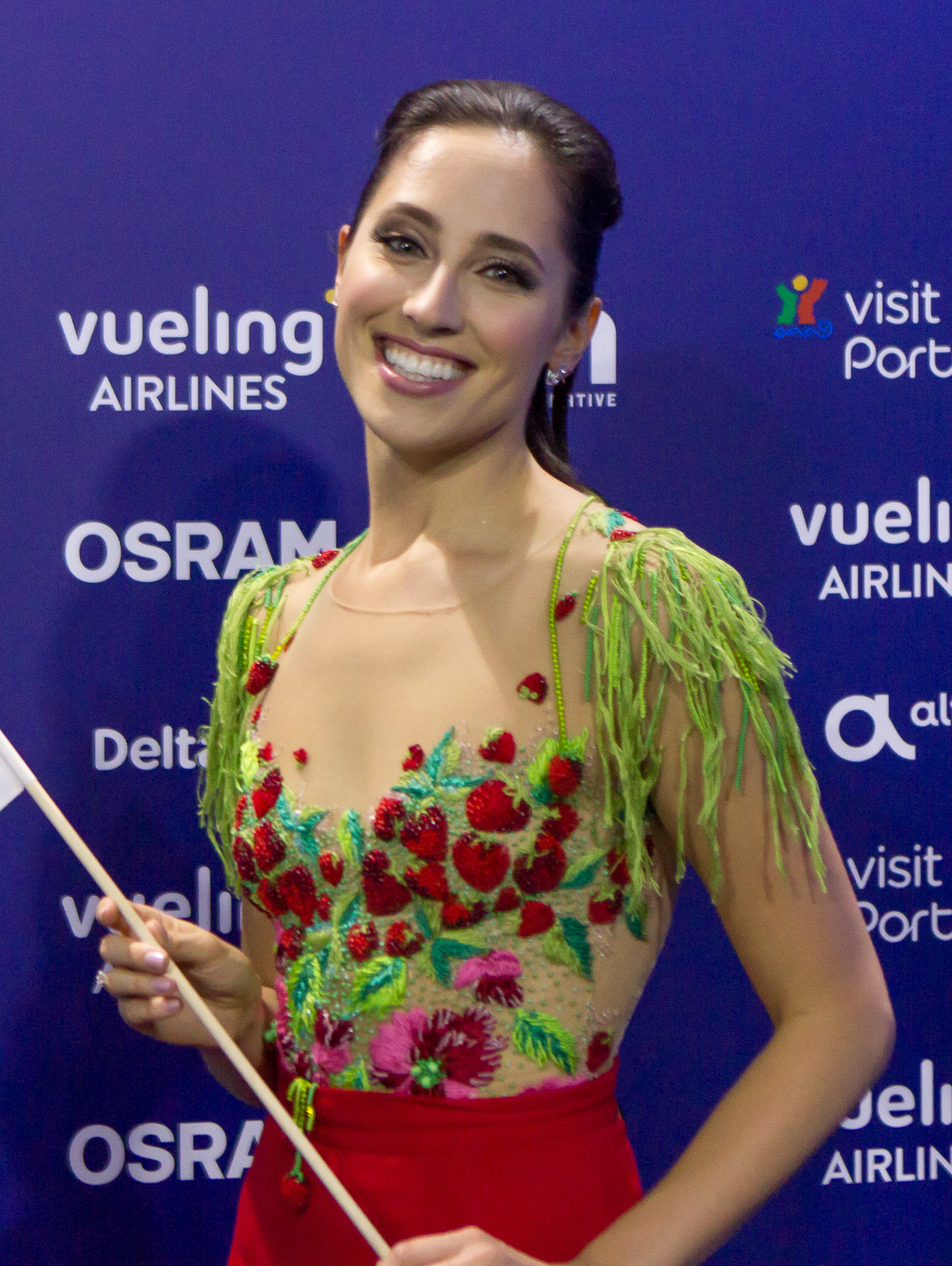 Press conference after the first Semi-Final of the 2018 Eurovision Song Contest